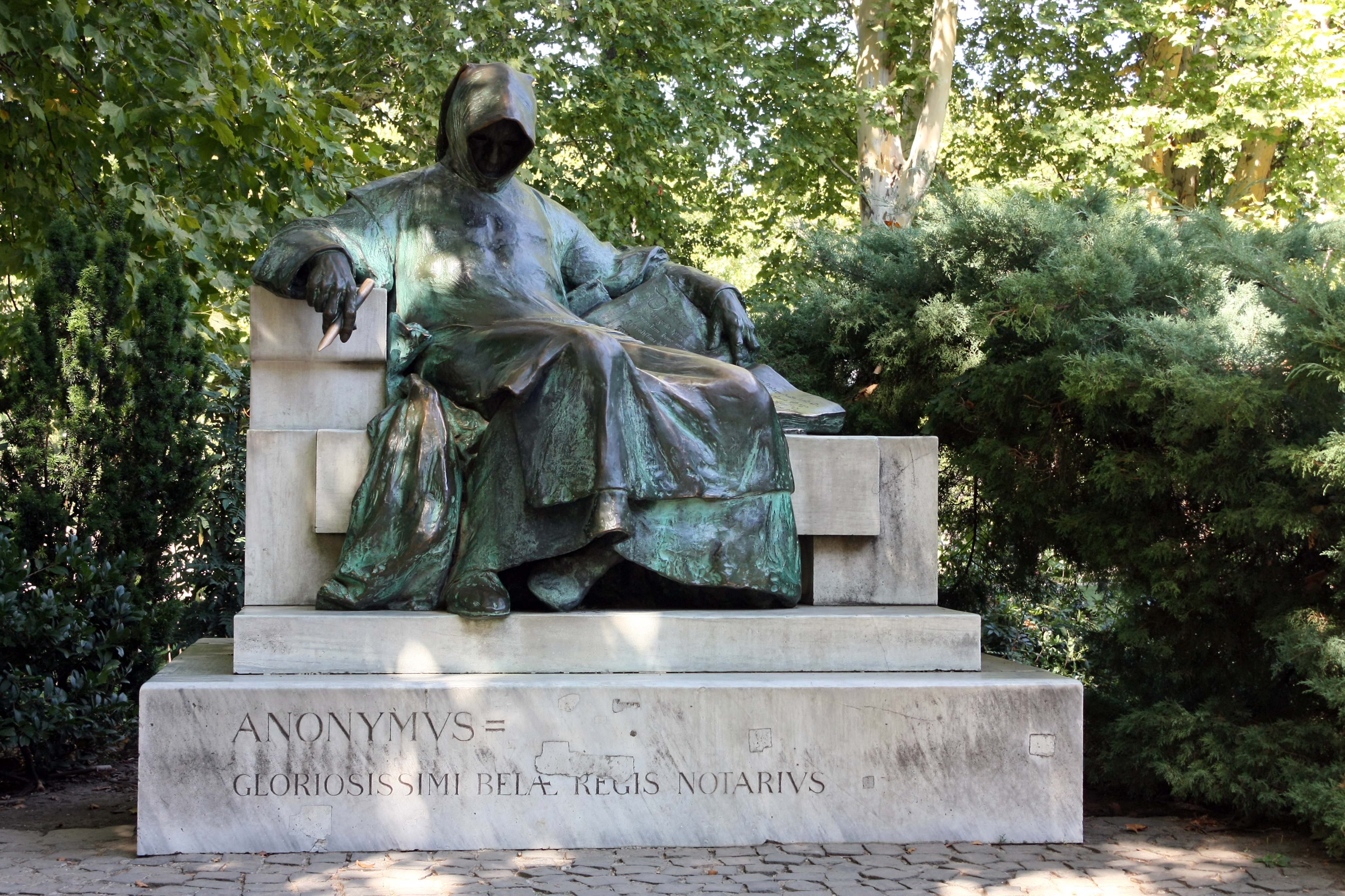 Statue of Anonymus in the City Park of Budapest. Created by Miklós Ligeti